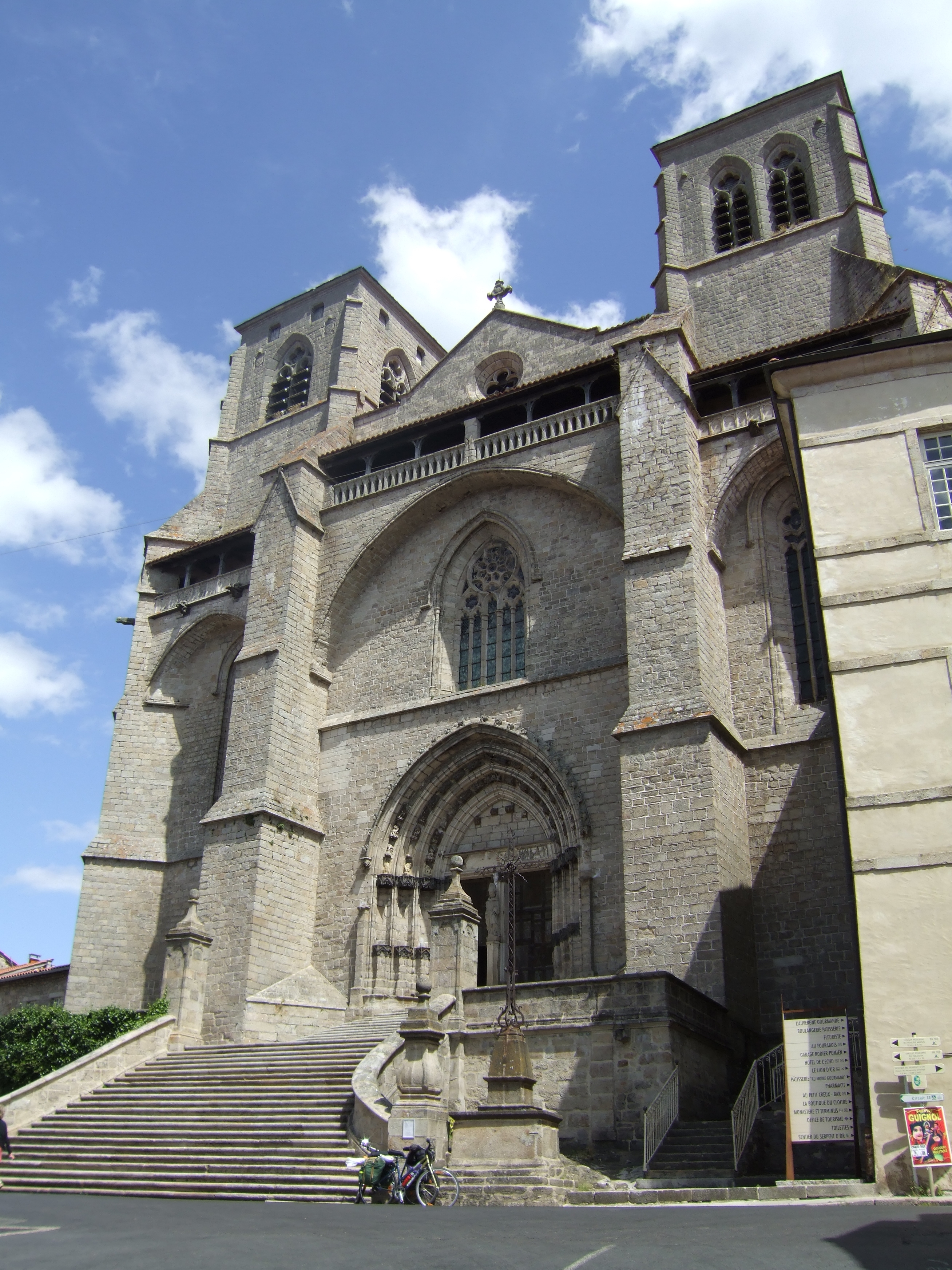 Church of La Chaise-Dieu Abbey-Front view